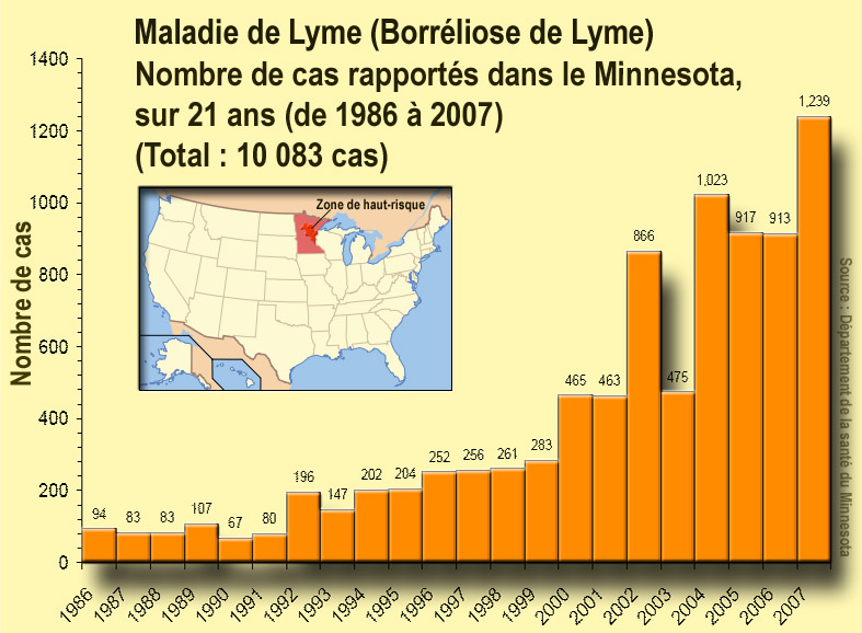 Lyme desease, number of declared cases during 21 yers in Minnesota